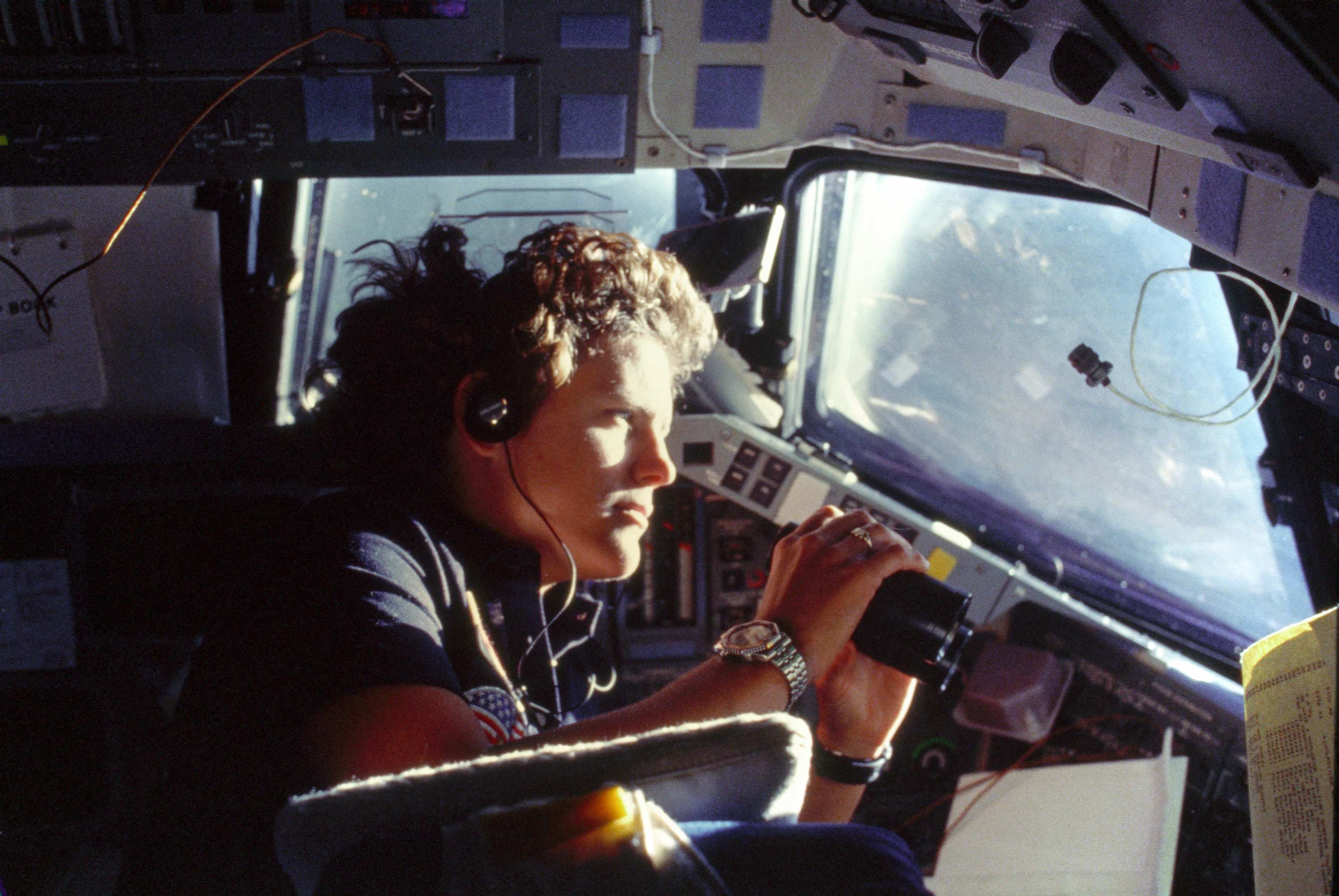 Astronaut Kathryn D. Sullivan, 41-G mission specialist, uses binoculars for a magnifed viewing of Earth through Challenger's forward cabin windows.